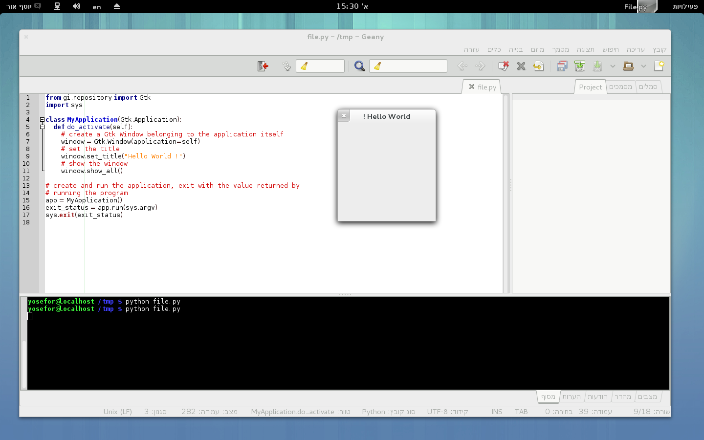 Programing 'Hello World' in PyGtk 3